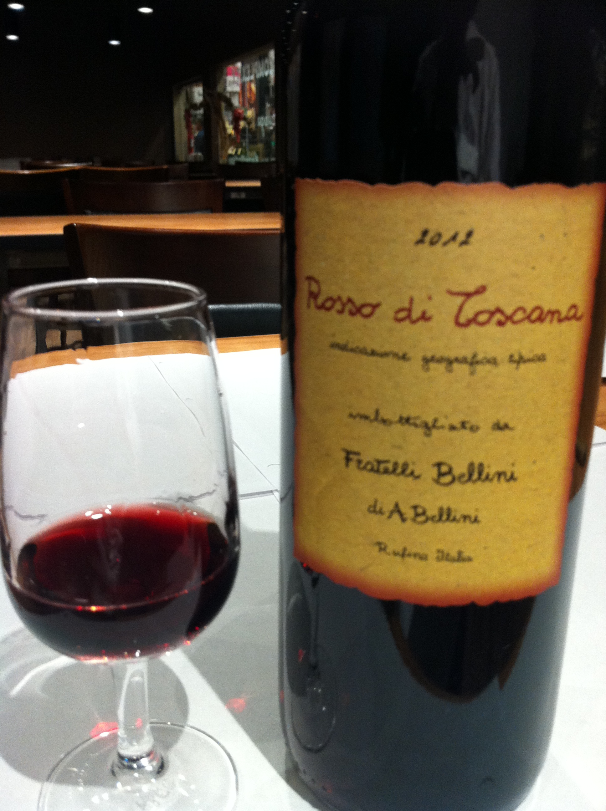 Italian IGT classified red blend made in the Tuscany wine region